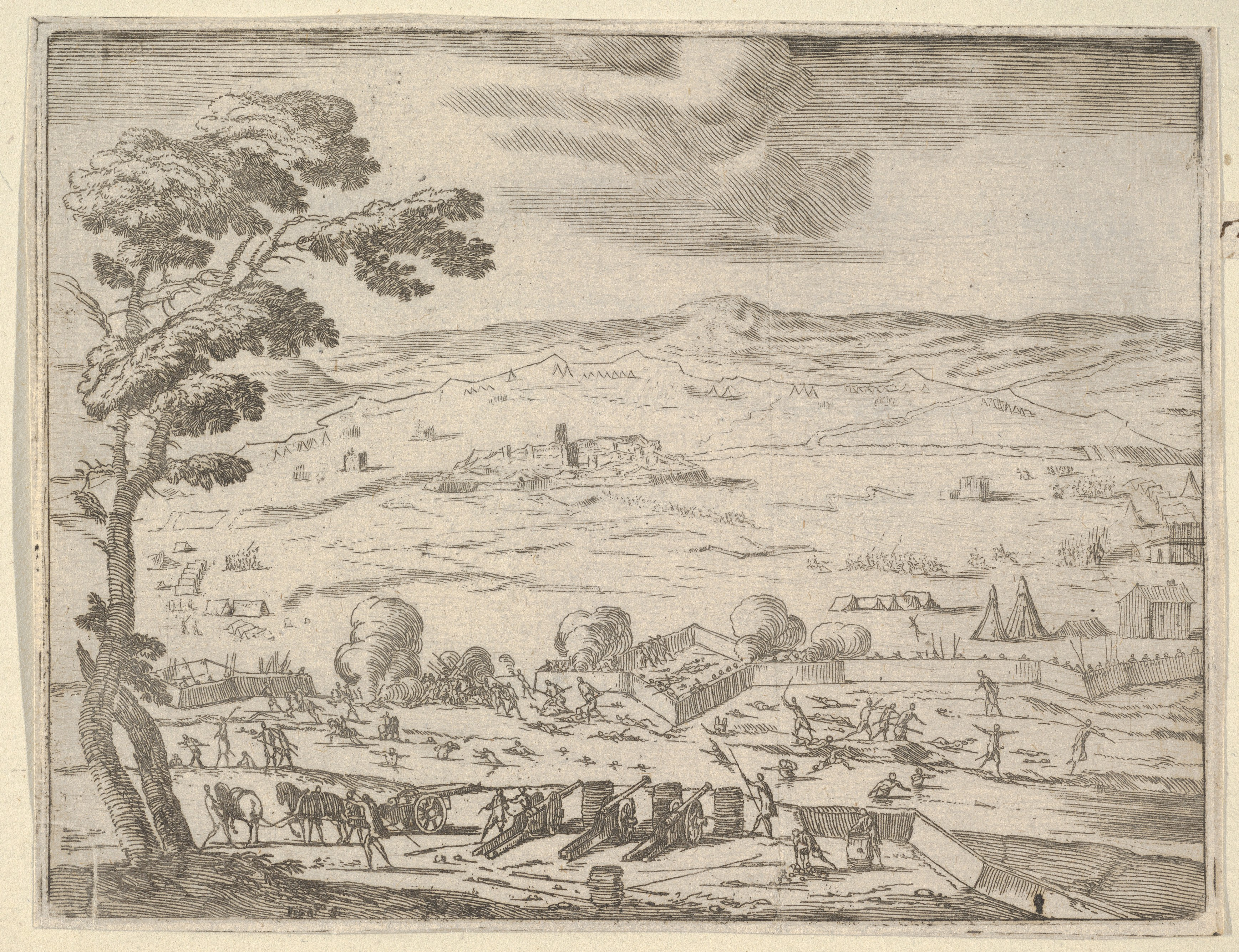 Print; Prints